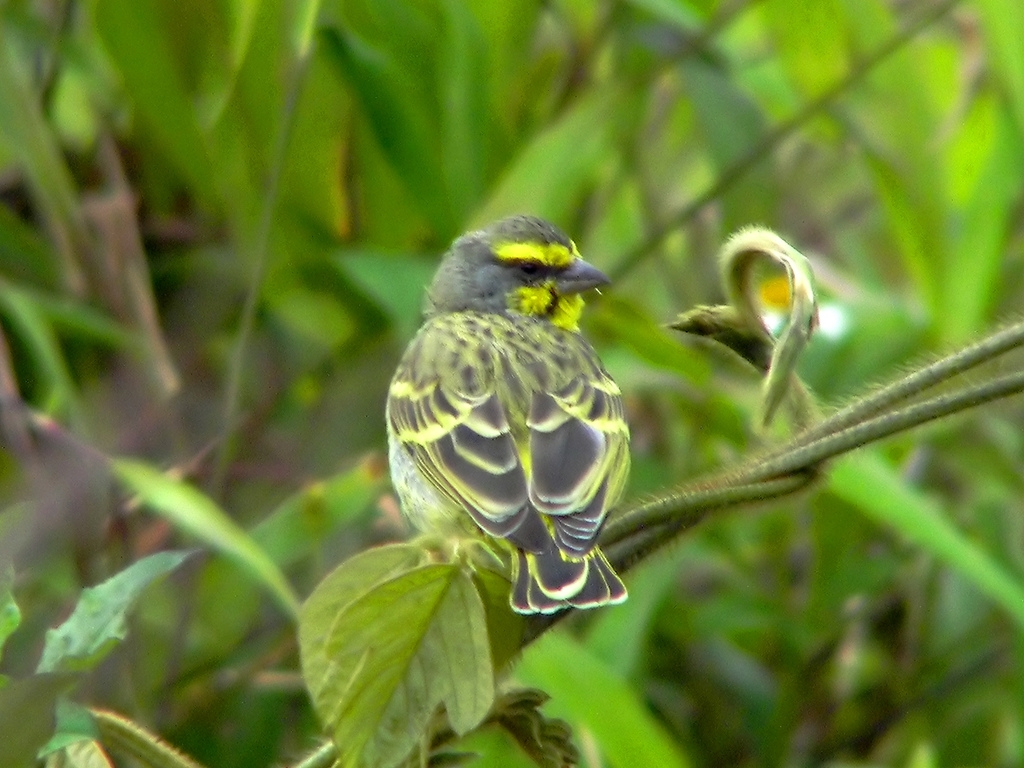 Yellow-fronted Canary Crithagra mozambica, captive, Hong Kong